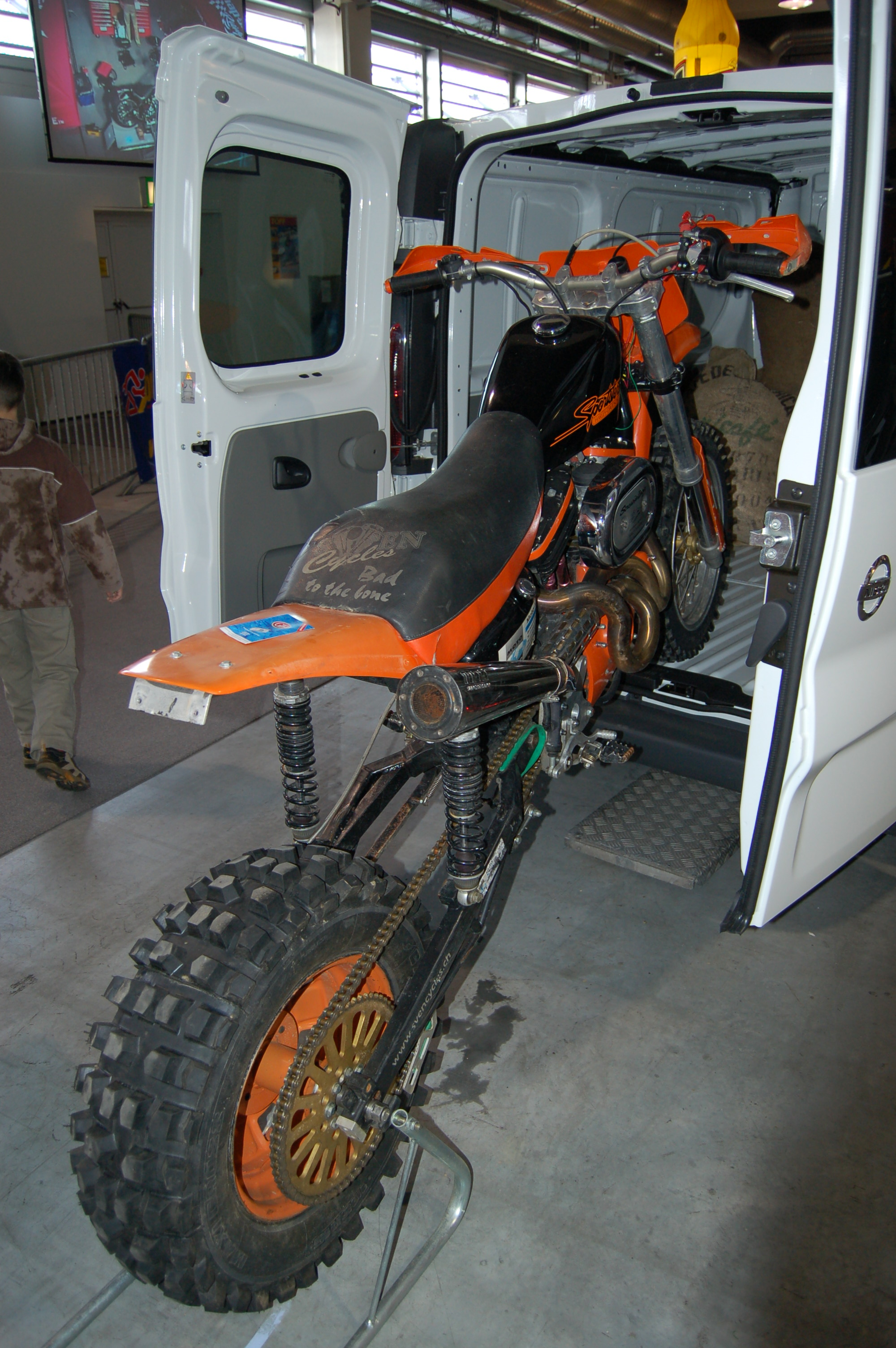 Photograph by: Toni_V of This work was so licensed in its previous place of publication.